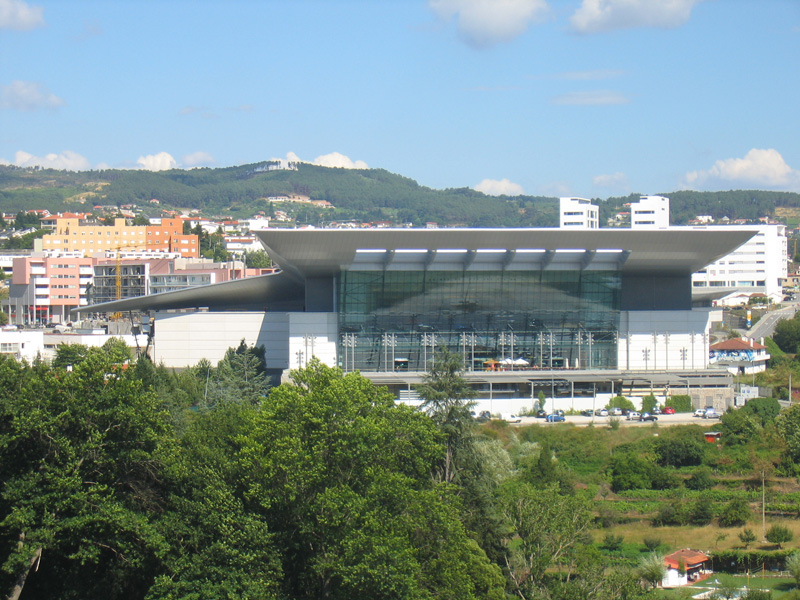 Shopping Center Dolce Vita Douro, Vila Real, Portugal